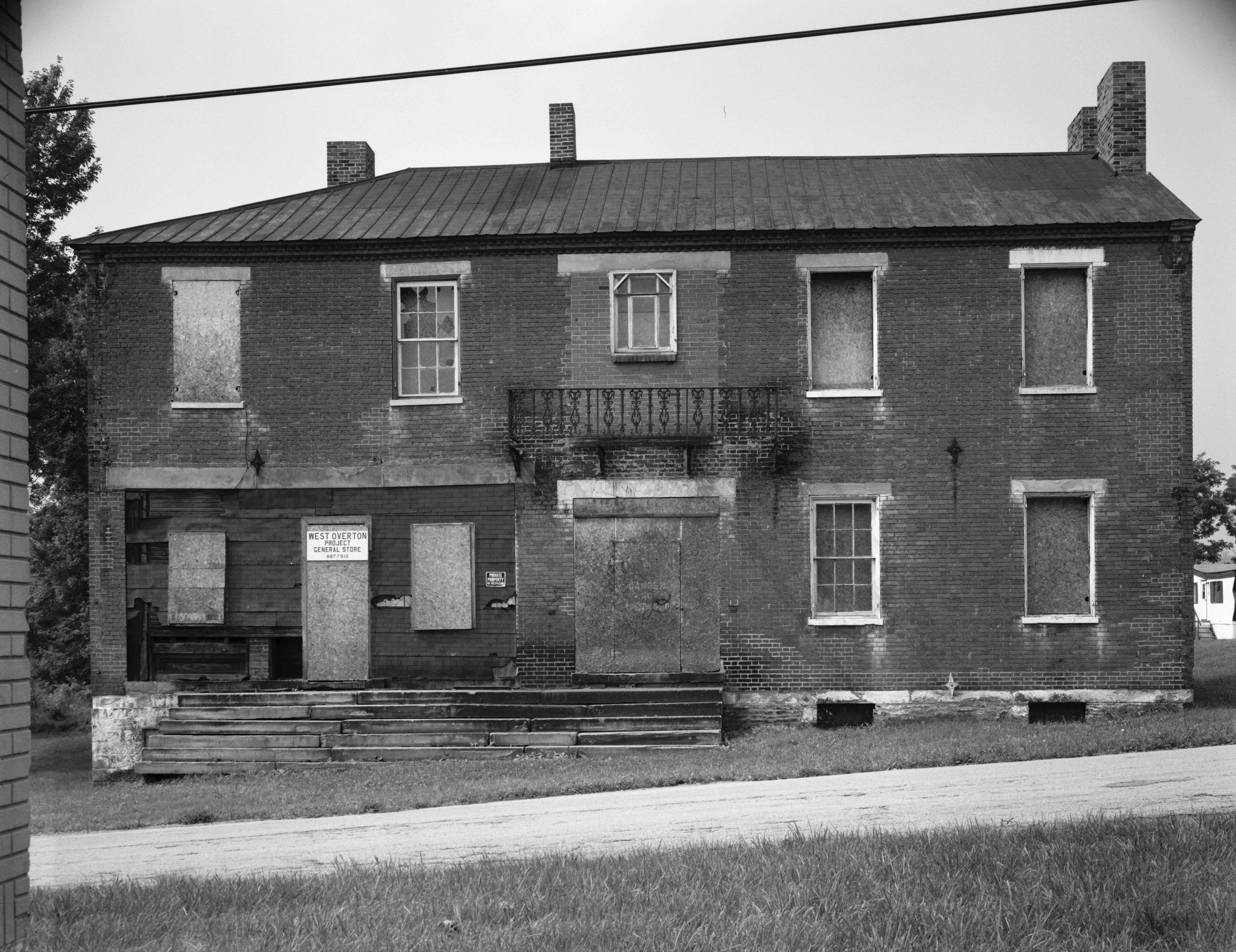 Southeastern front of the former Christian S. Overholt Store and House, located along Frick Avenue in West Overton, an unincorporated community in East Huntingdon Township, Westmoreland County, Pennsylvania, United States. Like other buildings along Frick Avenue, it is part of the West Overton Historic District, a historic district that is listed on the National Register of Historic Places.